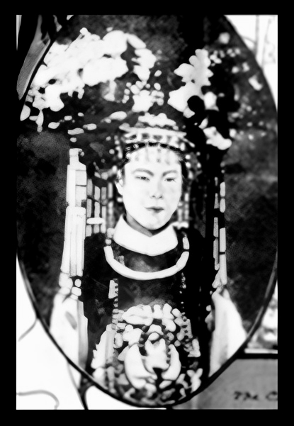 Empress Xiaozheyi